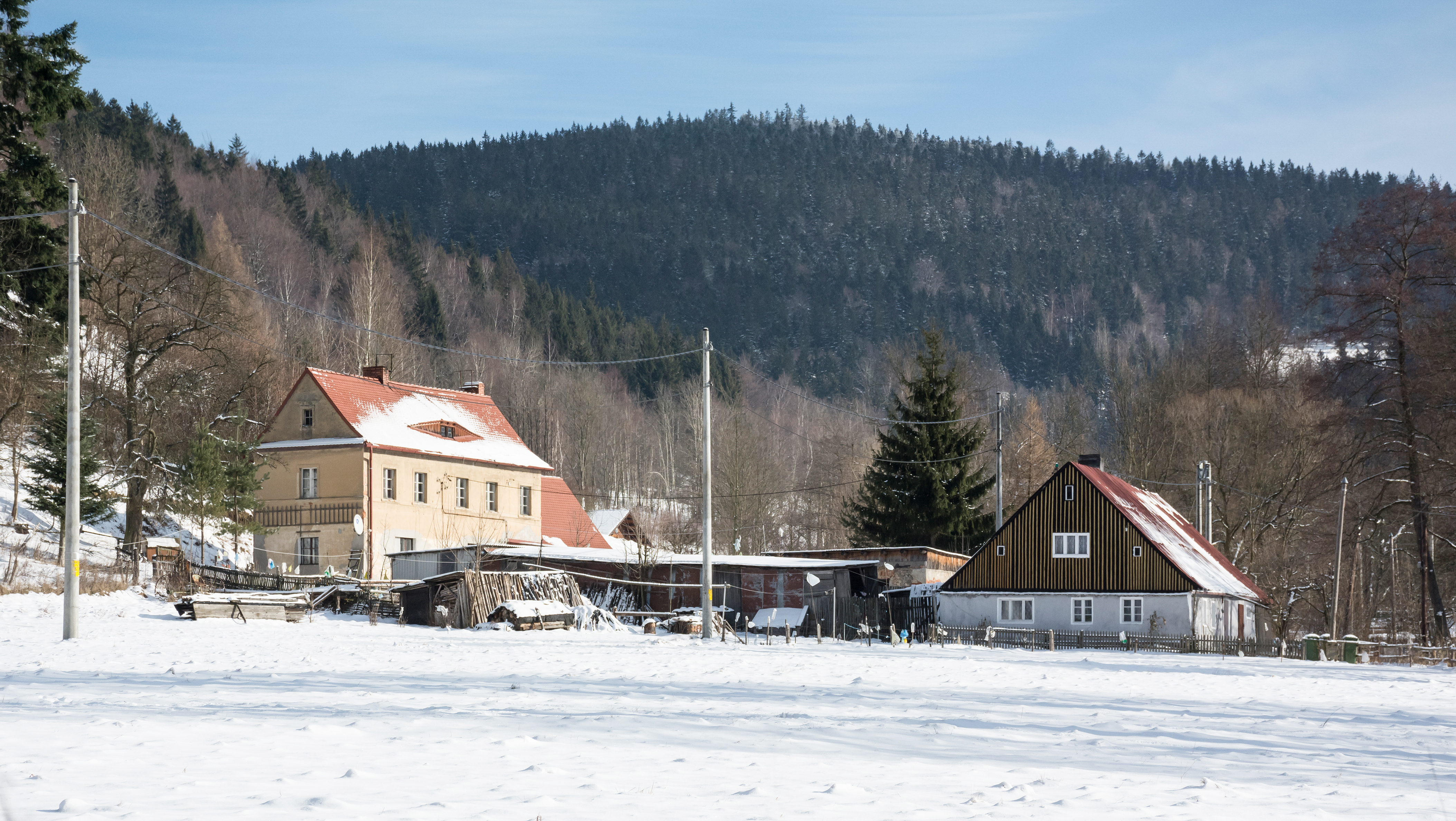 Wojtówka